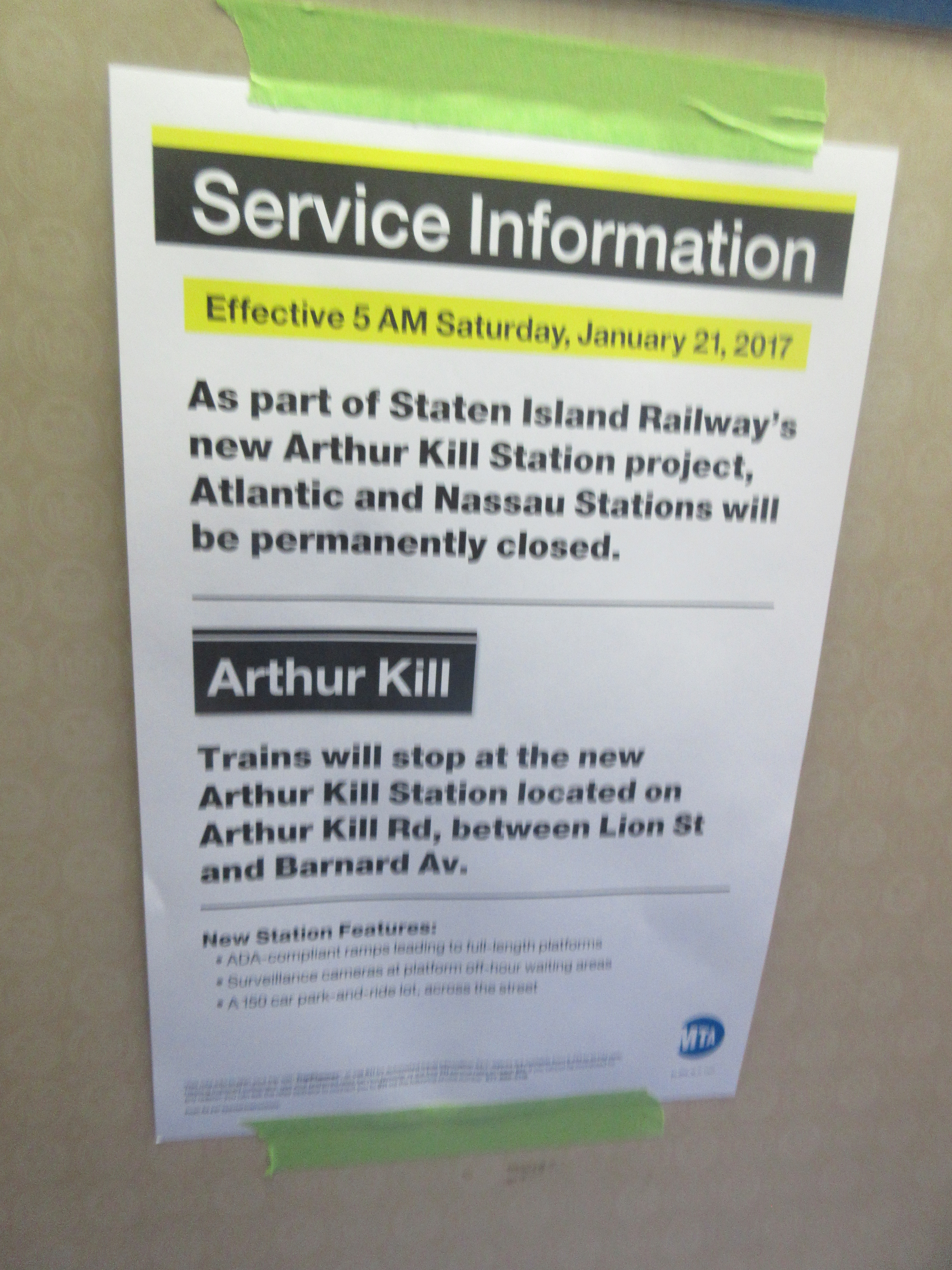 This is a poster in an R44 train car announcing the opening of the Arthur Kill station.